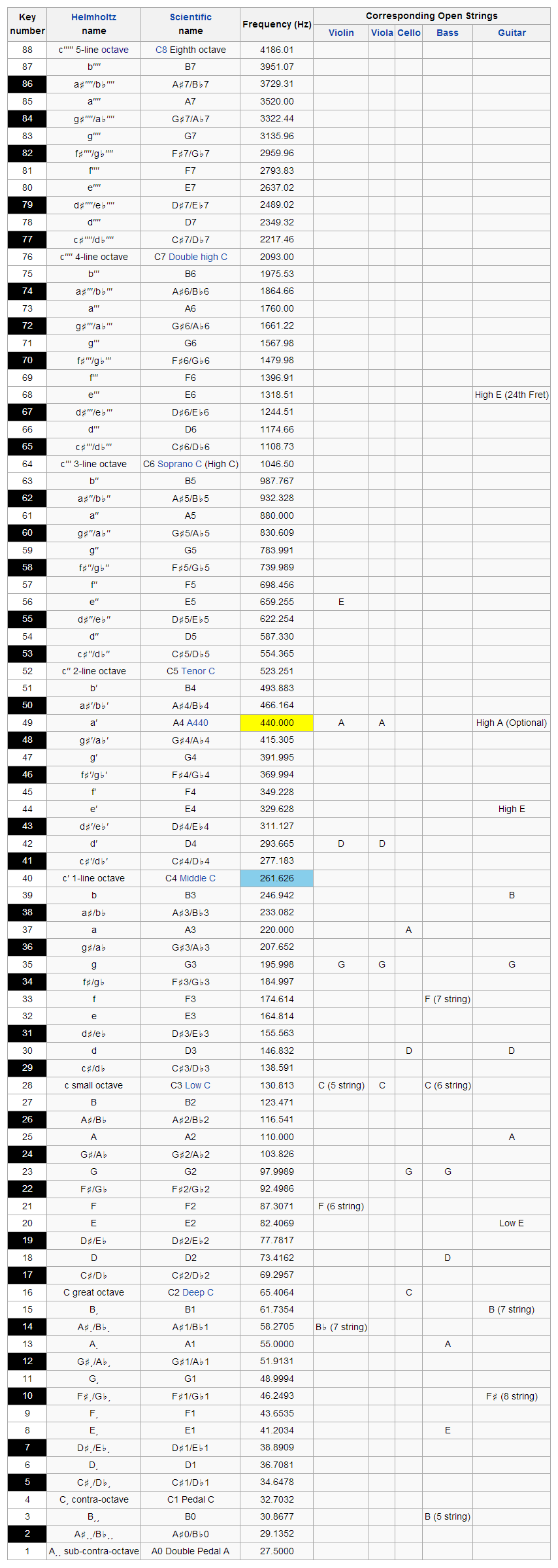 a printable version of the chart at